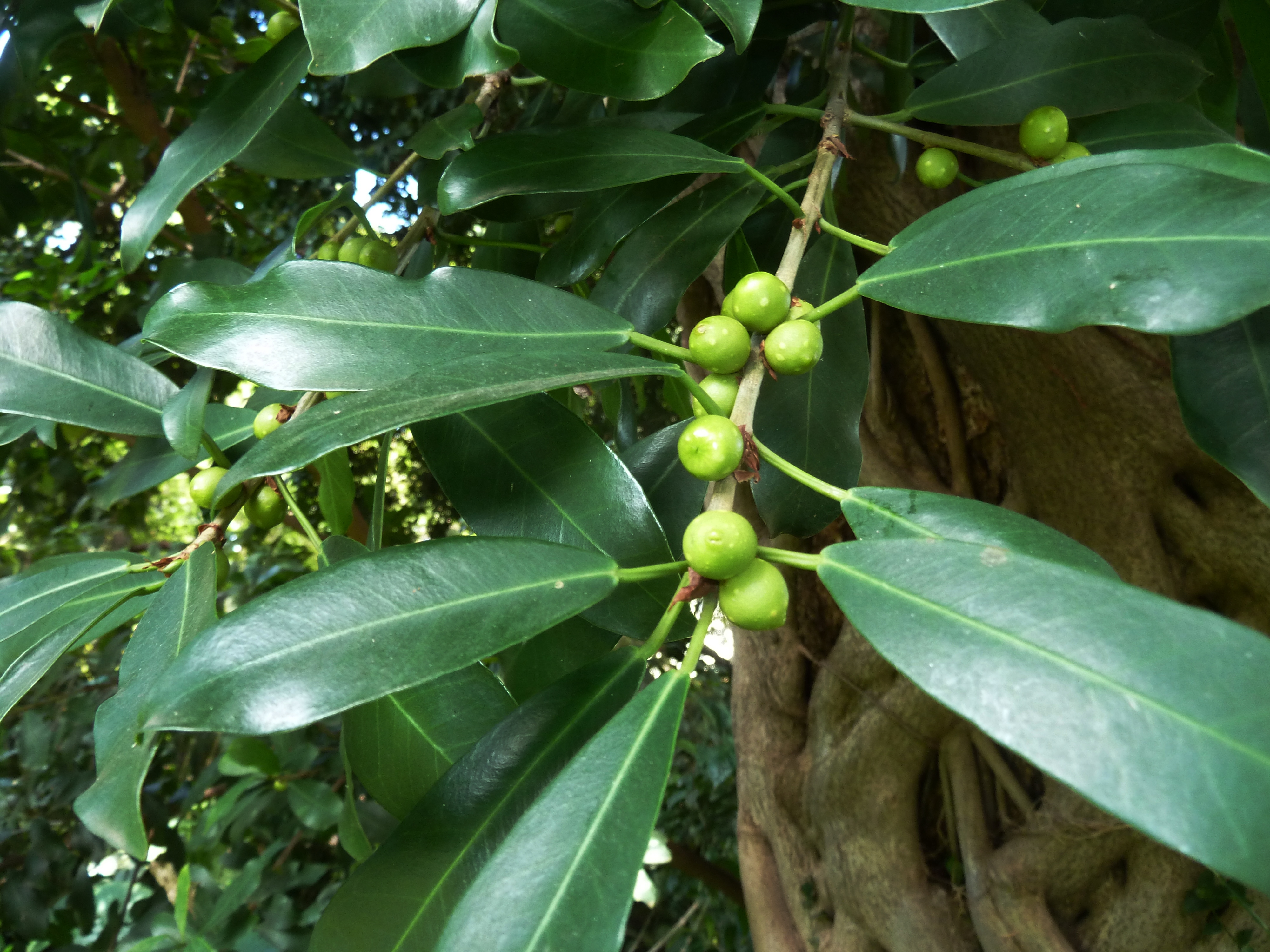 Leaves and sessile, axillary figs on terminal branchlet of a Strangler fig in the Manie van der Schijff Botanical Garden, University of Pretoria